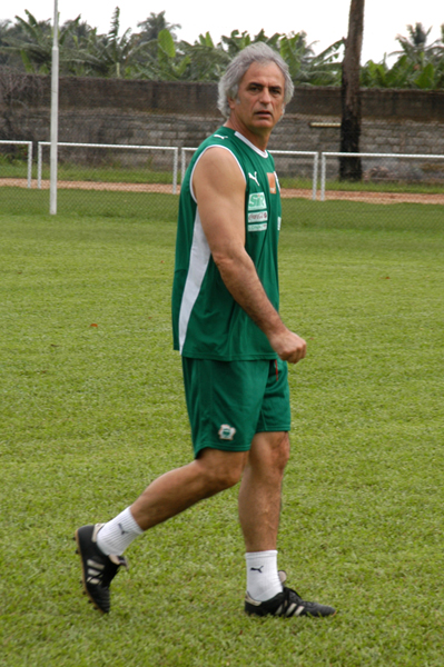 Vahid Halilhodžić, association football national coach of Cote d'Ivoire